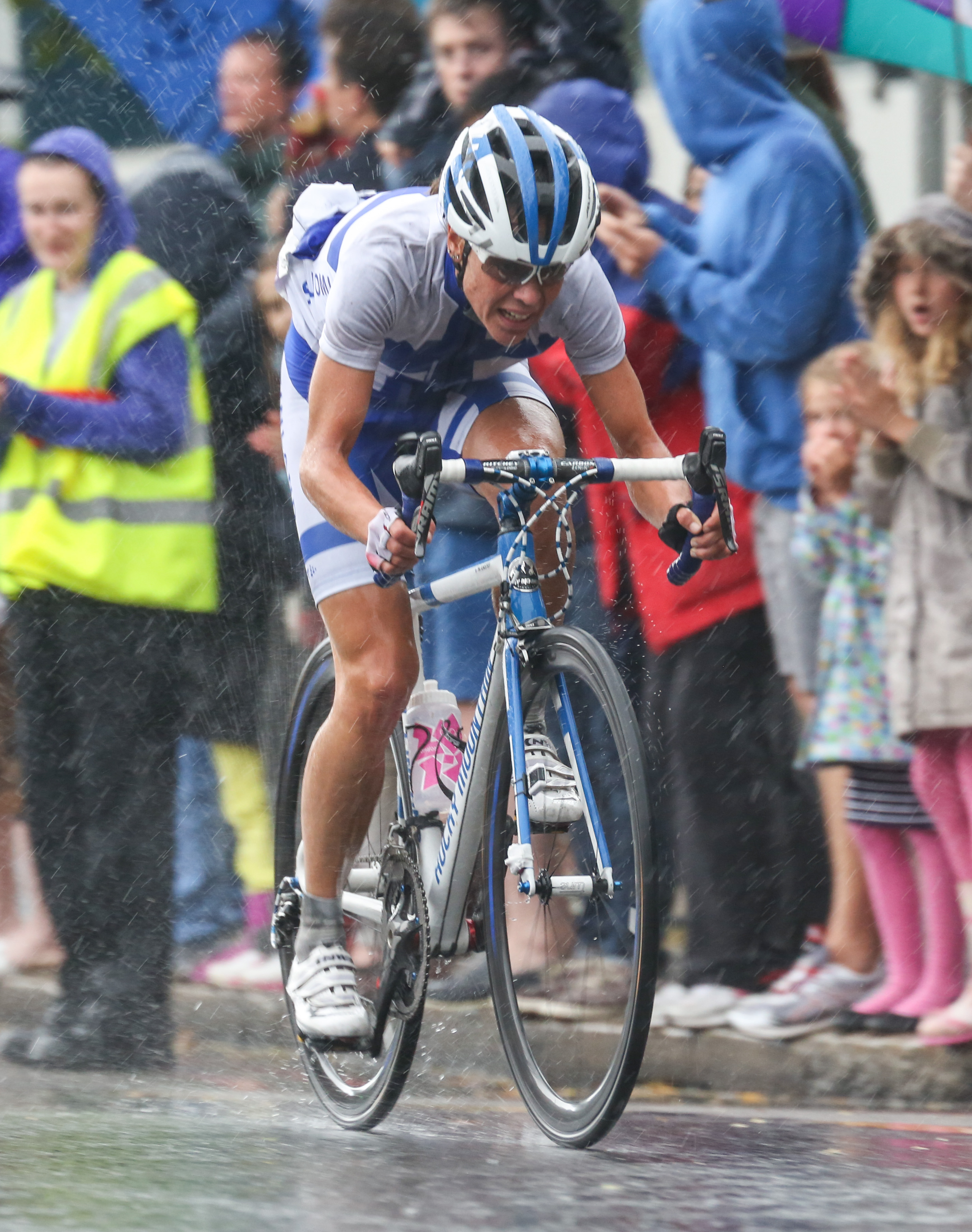 Pia Sundstedt of Finland cycling along Upper Richmond Road in southwest London in the Olympic Road Race.